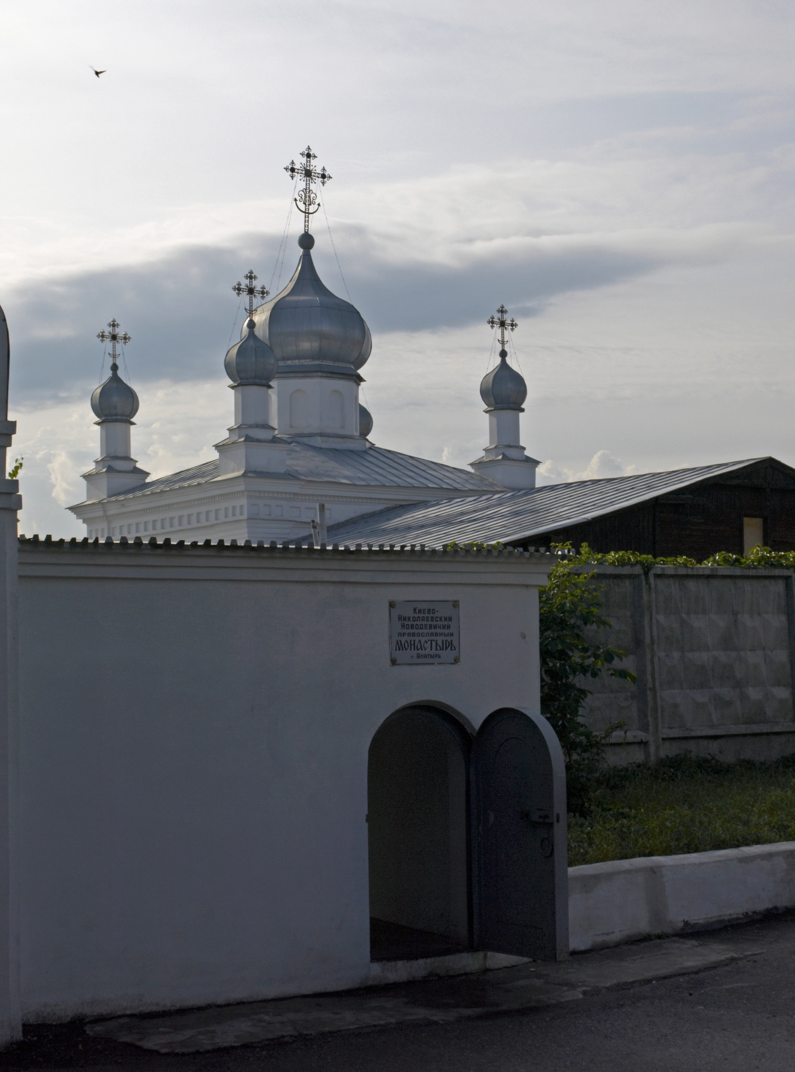 Ascencion Church of the Kievo-Nikolayevsky Monastery, Alatyr